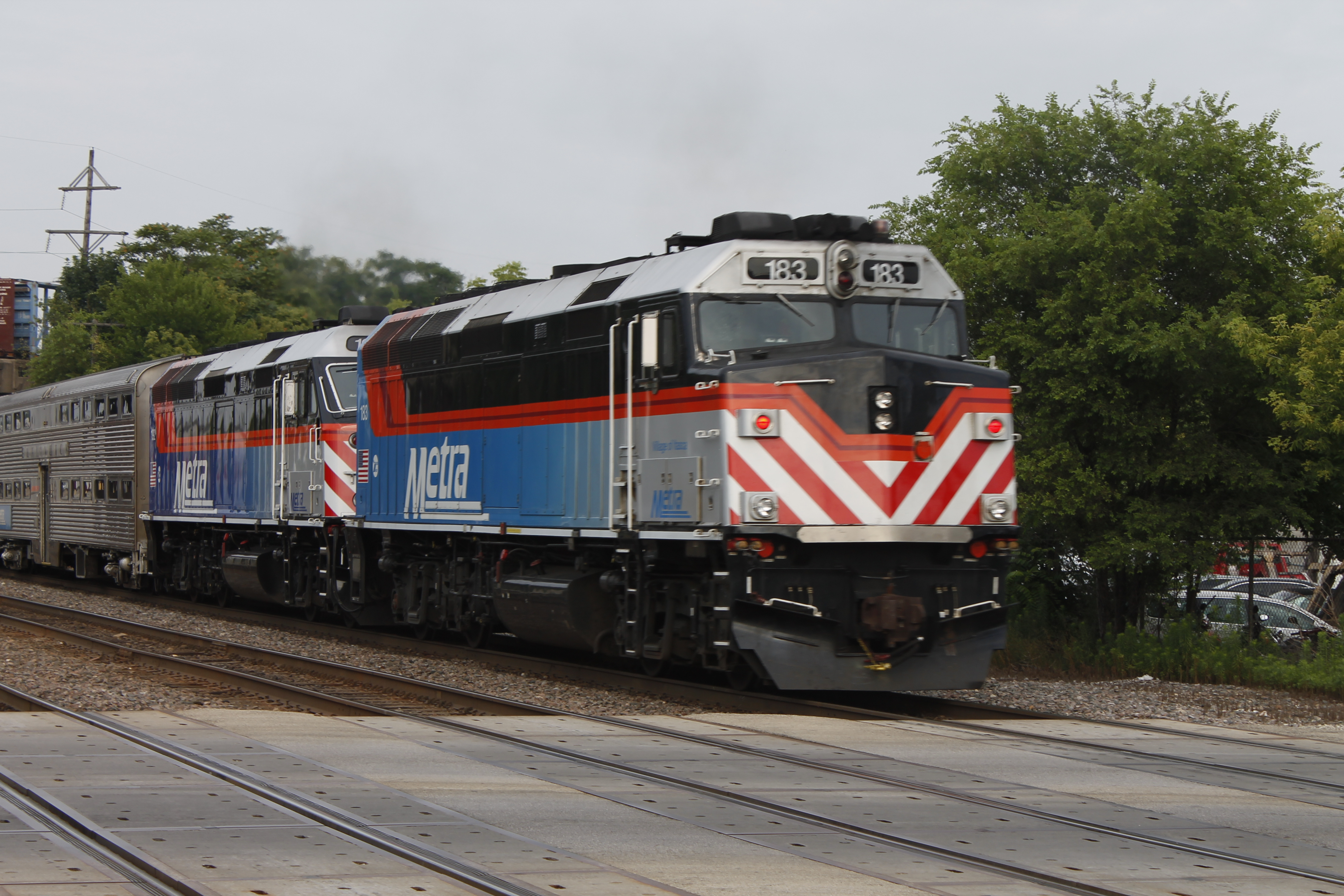 just in case 1 wasn't good enough